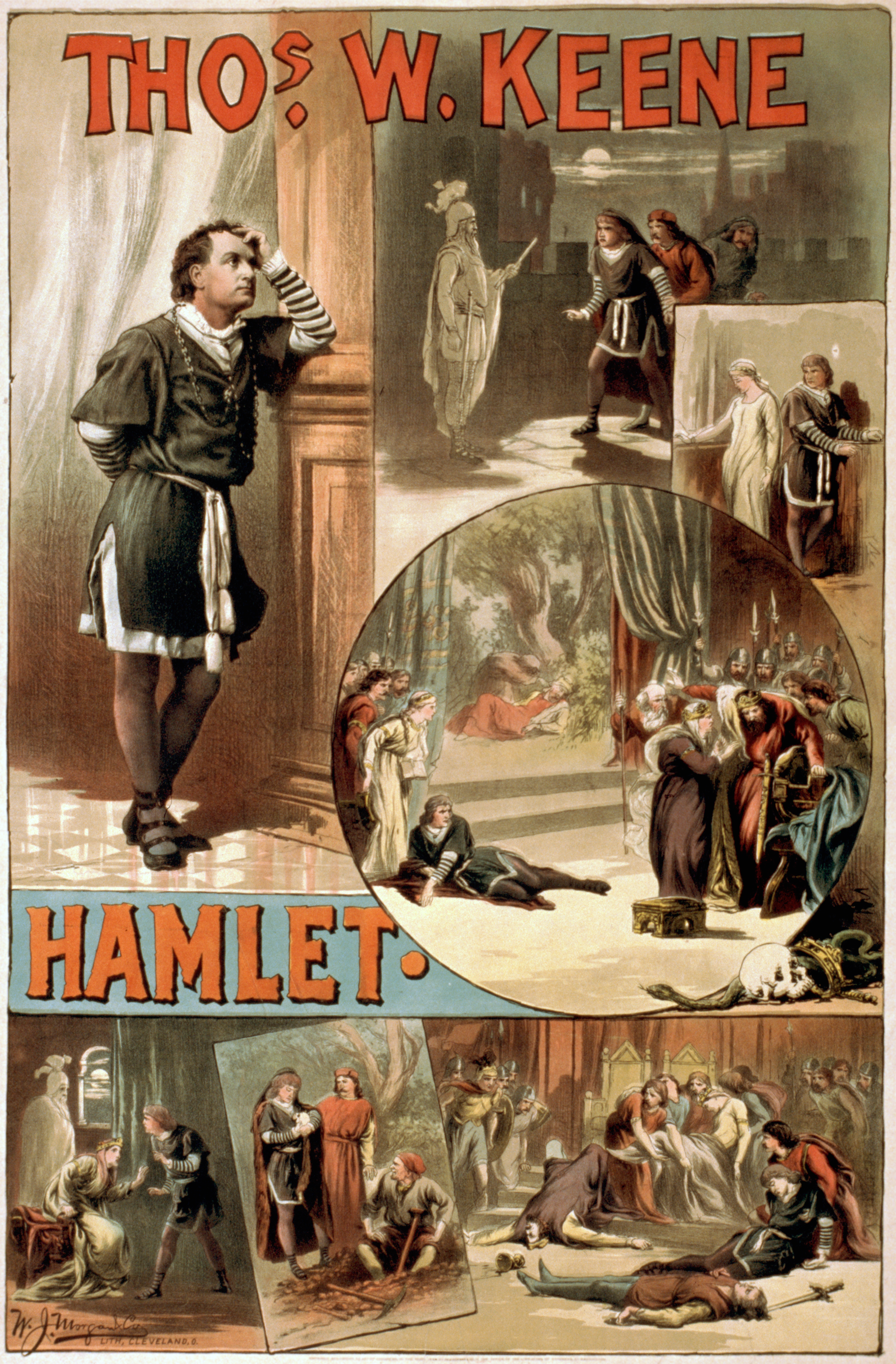 A circa 1884 poster for William Shakespeare's Hamlet, starring Thos. W. Keene.